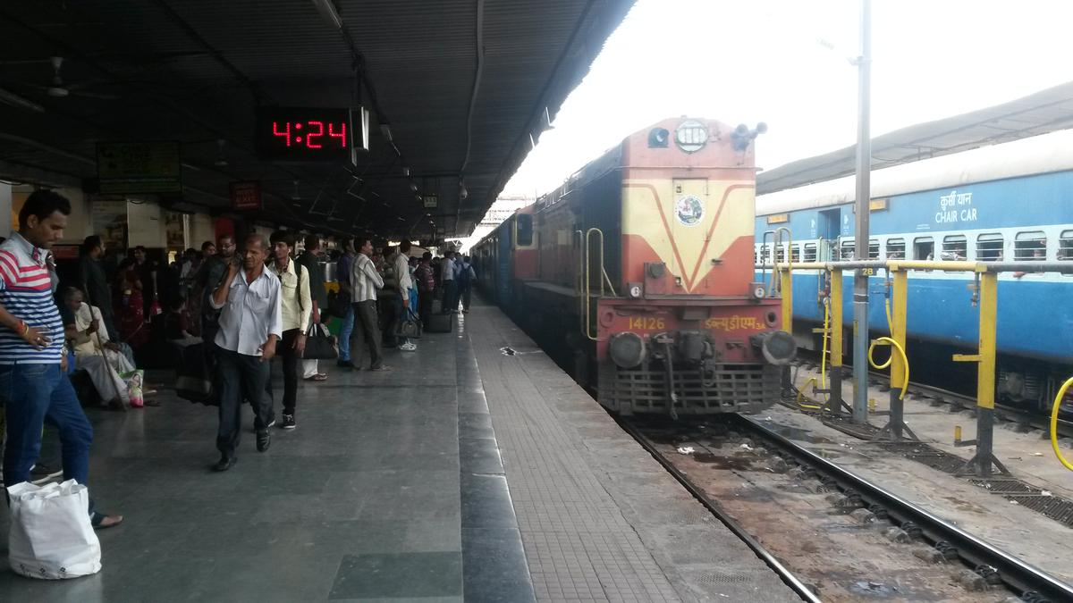 Ernakulam-Okha Express arriving at Surat Railway station